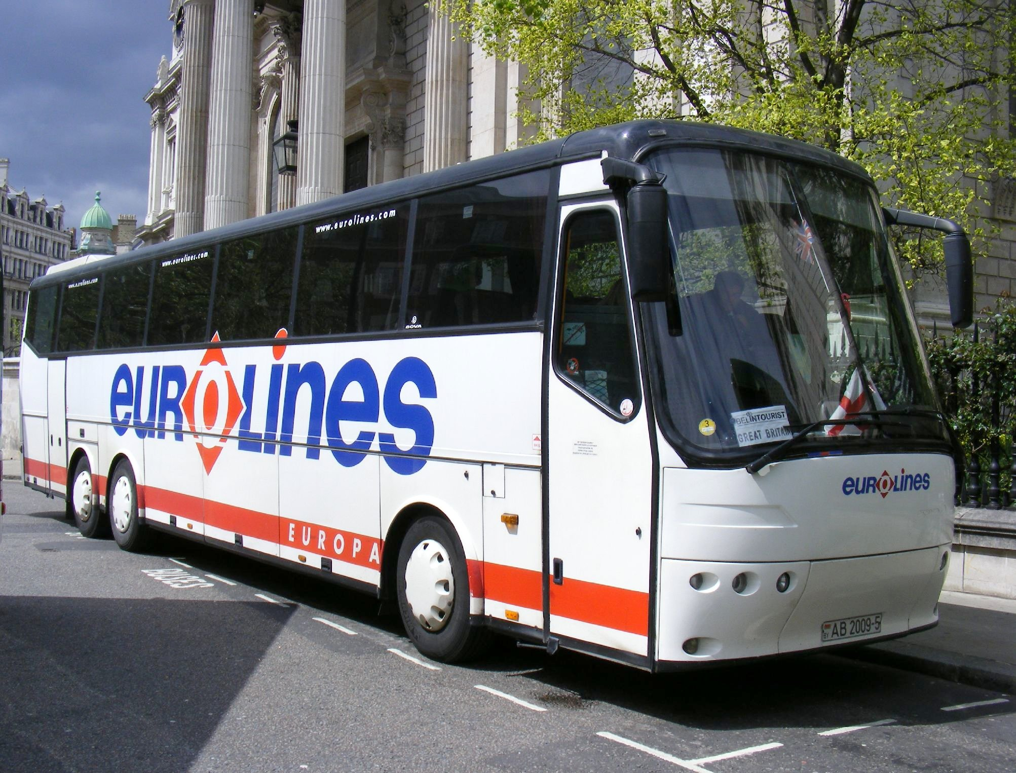 Bova Futura MAGNUM FHD 14 coach (REG. ab 2009-5) of Eurolines, Belarus. Operating for Belintourist., the national tour operator. Eurolines, founded in 1985, arrived in the Republic of Belarus in 2000 as Beleurolines - БелЕвролайнс. Routes included Moscow-Stuttgart, Paris- Minsk and Antwerp-Minsk.